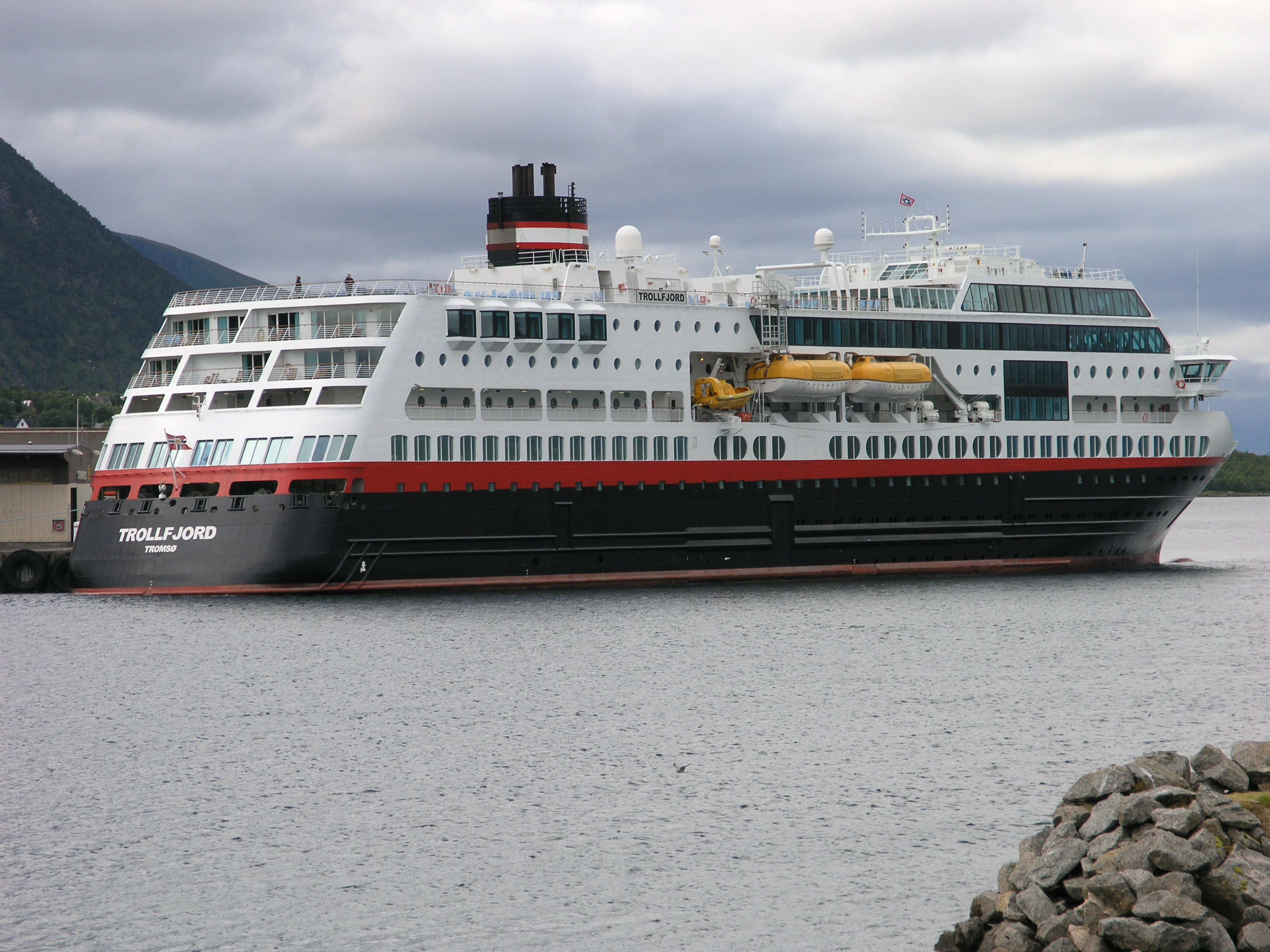 Ferry Trollfjord